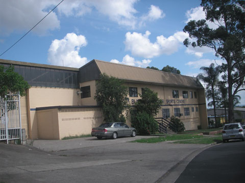 Blacktown Indoor Sports centre located in Kings Park, NSW, near Marayong Station.